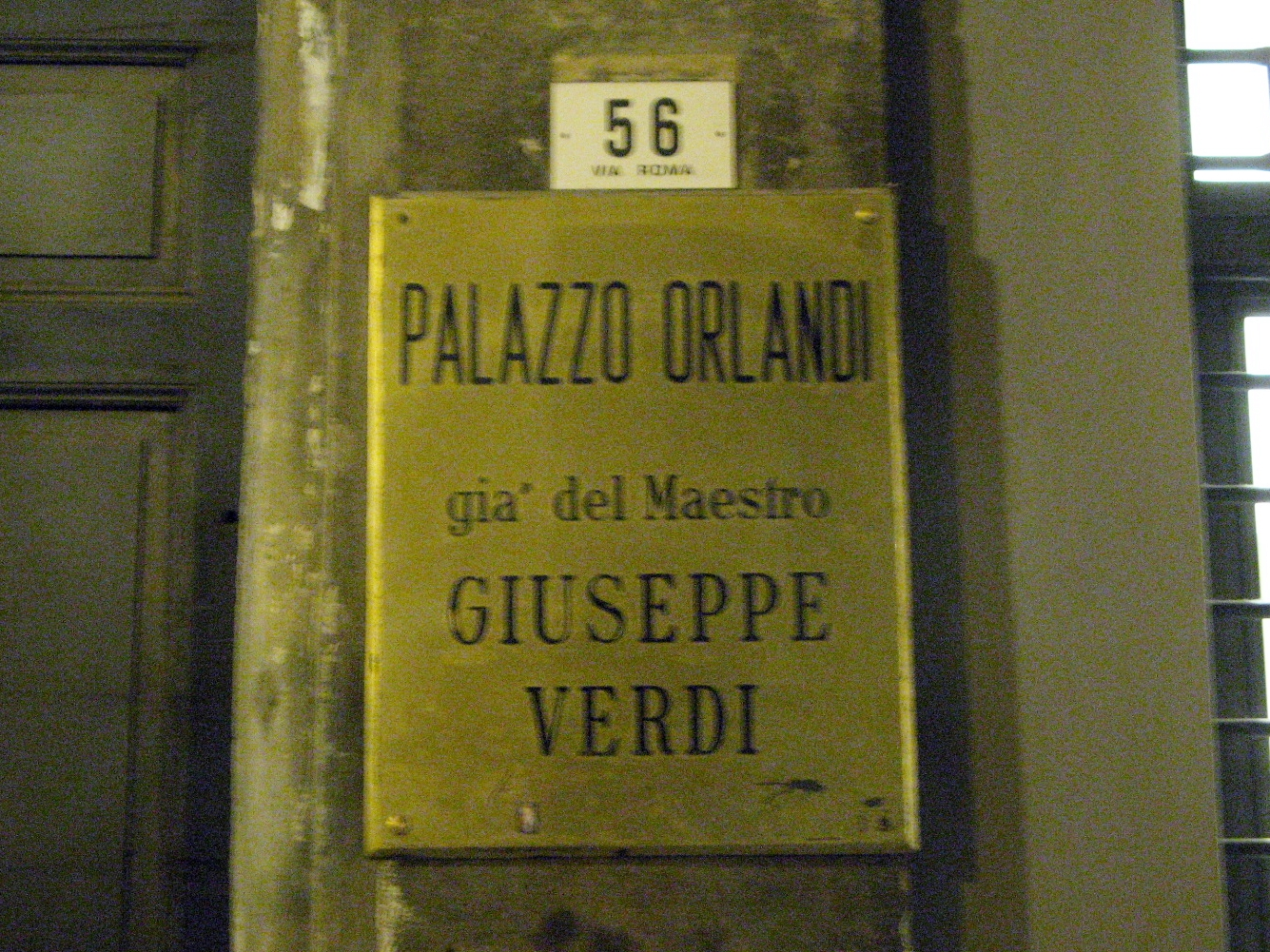 The opera composer Giuseppe Verdi lived in Palazzo Orlandi from 1849 to 1851 with the former opera singer Giuseppina Strepponi, who would later become his second wife.